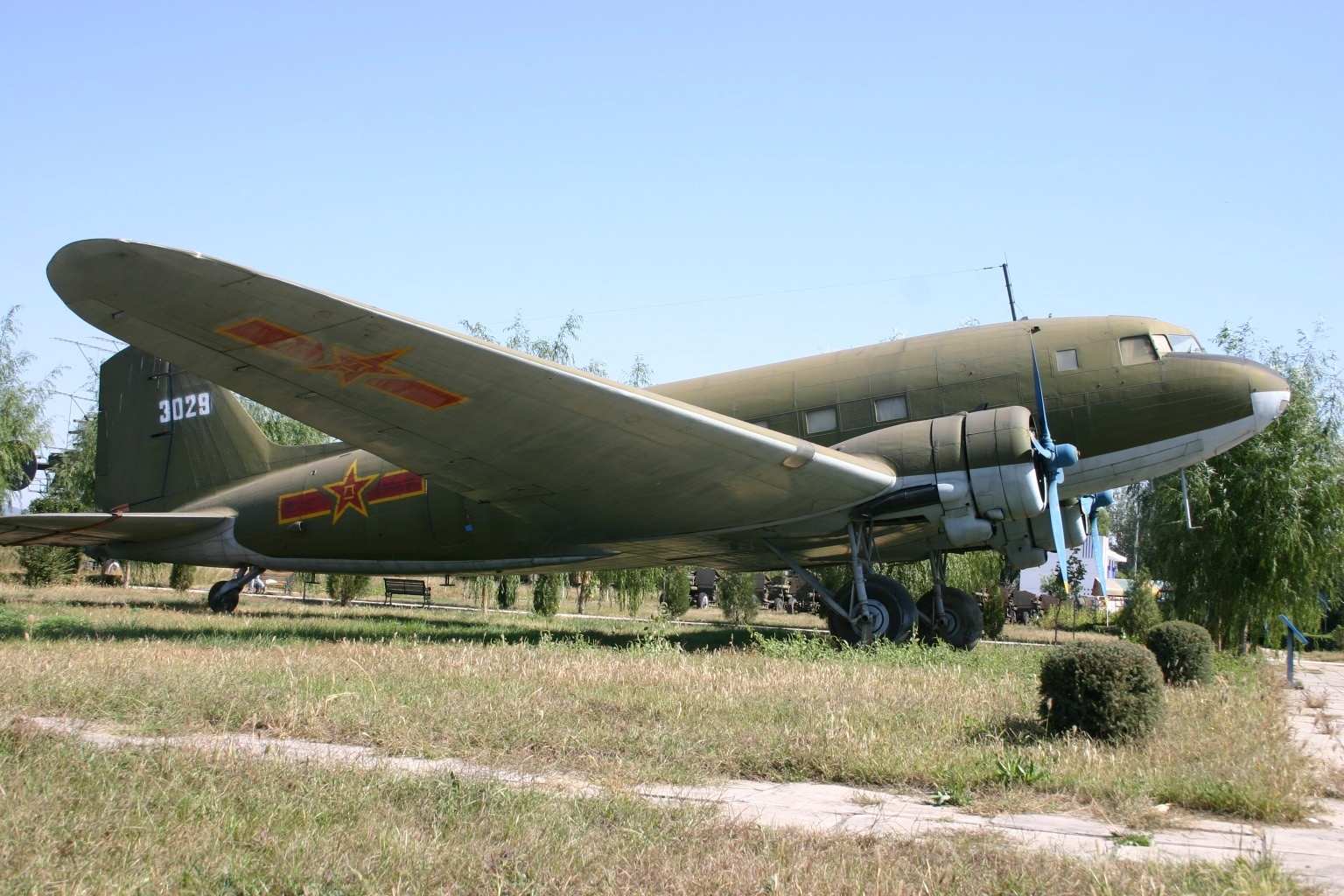 At Beijing Xiaotangshanzhen Aviation Museum